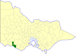 Location of the former Shire of Warrnambool within Victoria.